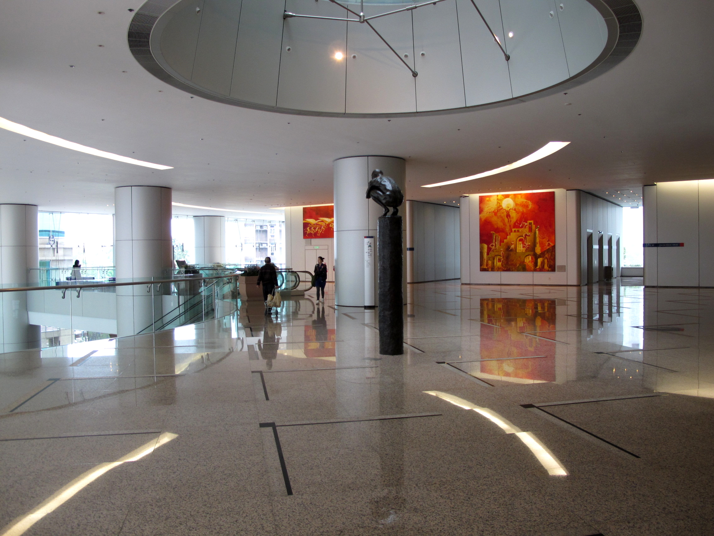 Oxford House Lobby